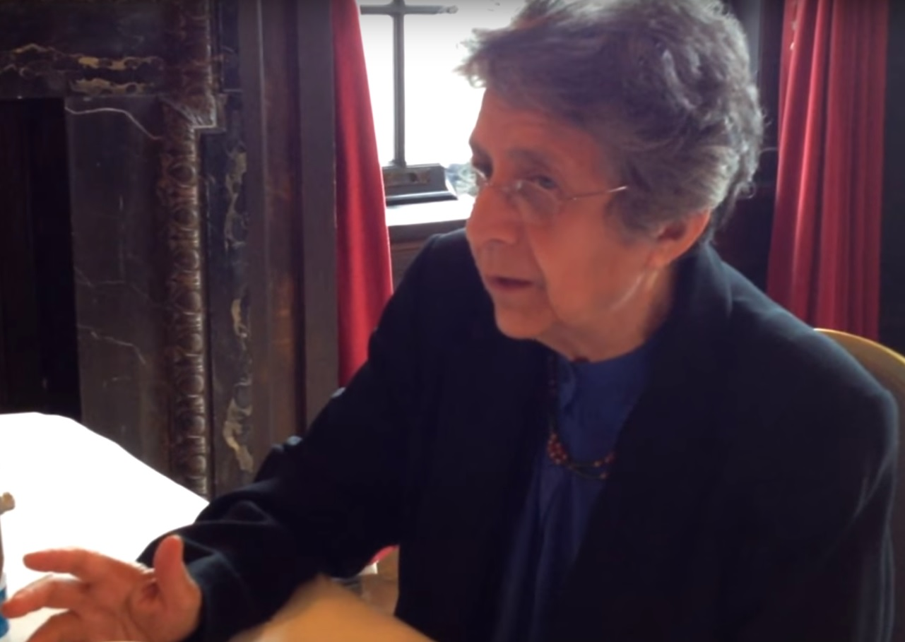 Cropped screenshot from video. Leila Ahmed is the Victor S. Thomas Professor of Divinity at Harvard Divinity School, and was the first professor of women's studies ever appointed at HDS. Her earlier works that established her voice in the discussion of gender in contemporary Islam werd Women and Gender in Islam: Historical Roots of a Modern Debate (1993) and A Border Passage: From Cairo to America—A Woman's Journey (2000), and her most recent book, A Quiet Revolution: The Veil's Resurgence, from the Middle East to America (2011), won the Grawemeyer Award in Religion in 2013. Here she talks to MRB editor Ingrid Lilly on a recent visit to Louisville. Produced and Directed by Charles Halton ※Special thanks to the Louisville Presbyterian Theological Seminary for hosting this interview.